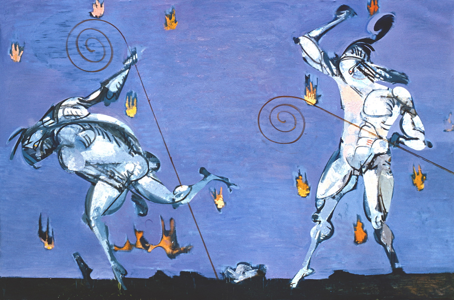 Vasiliy Ryabchenko. "Grace refusal", 200 х 300 сm, oil on canvas, 1989